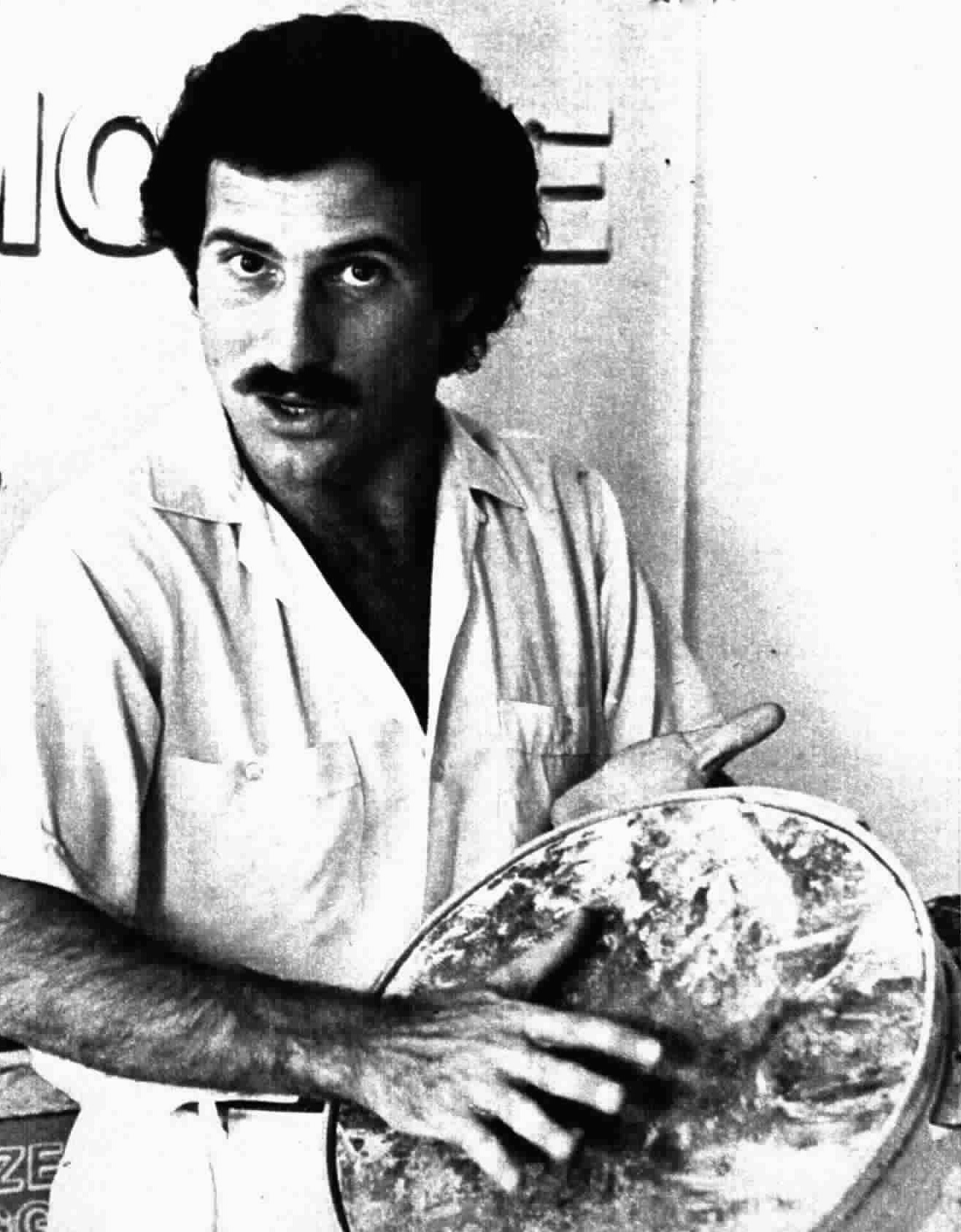 Italian actor and writer Brizio Montinaro